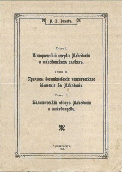 Cover of the book for Macedonia and Macedonians published by Nace Dimov in St. Petersburg in 1913